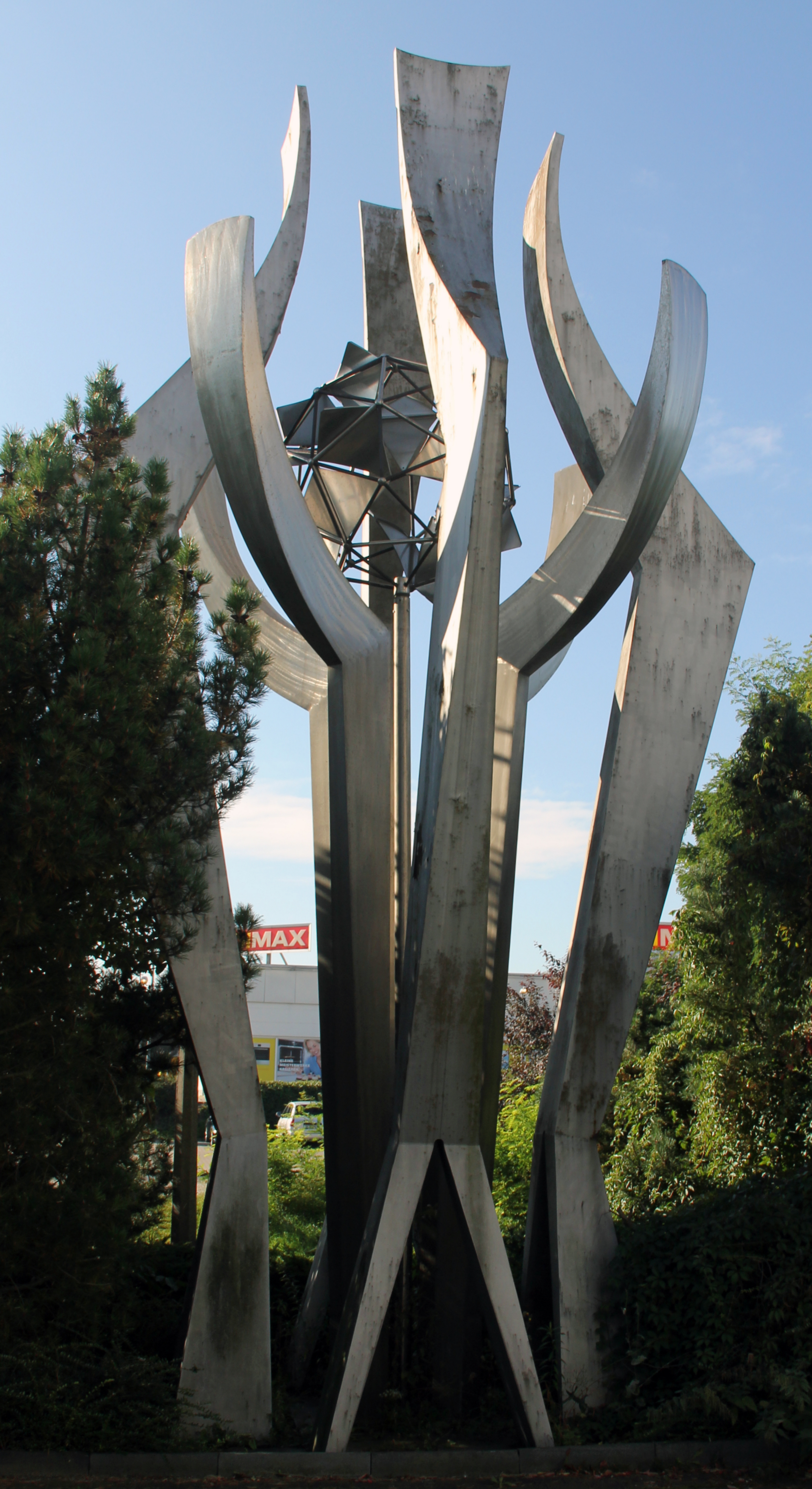 Sculpture, "Schutz vor Feuer" by Manfred Büttner, 1985, Märkische Allee 181, Berlin-Marzahn, Germany